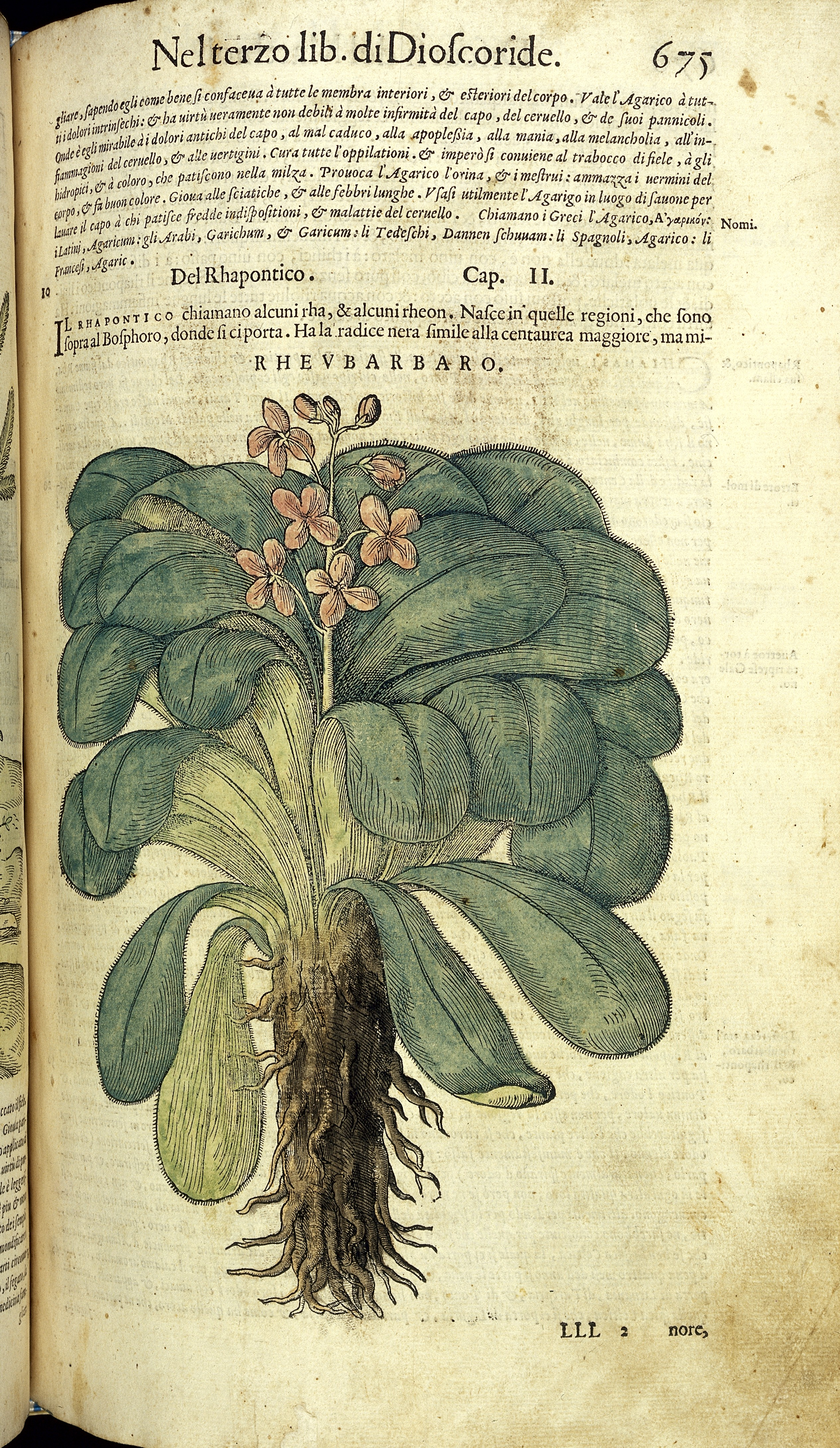 Dioscorides' rhubarb. Rhevbarbaro. (Rhubarb). A renaissance illustration from Pietro Andrea Mattioli's Italian translation of Dioscorides, ed. 3, Venice, V. Valgrisi, 1568. Rare Books Keywords: 1500-1577; Rhubarb; Herb; mattioli, pietro andrea; dioscorides pedanius, ad 50; Dioscorides; Materia Medica